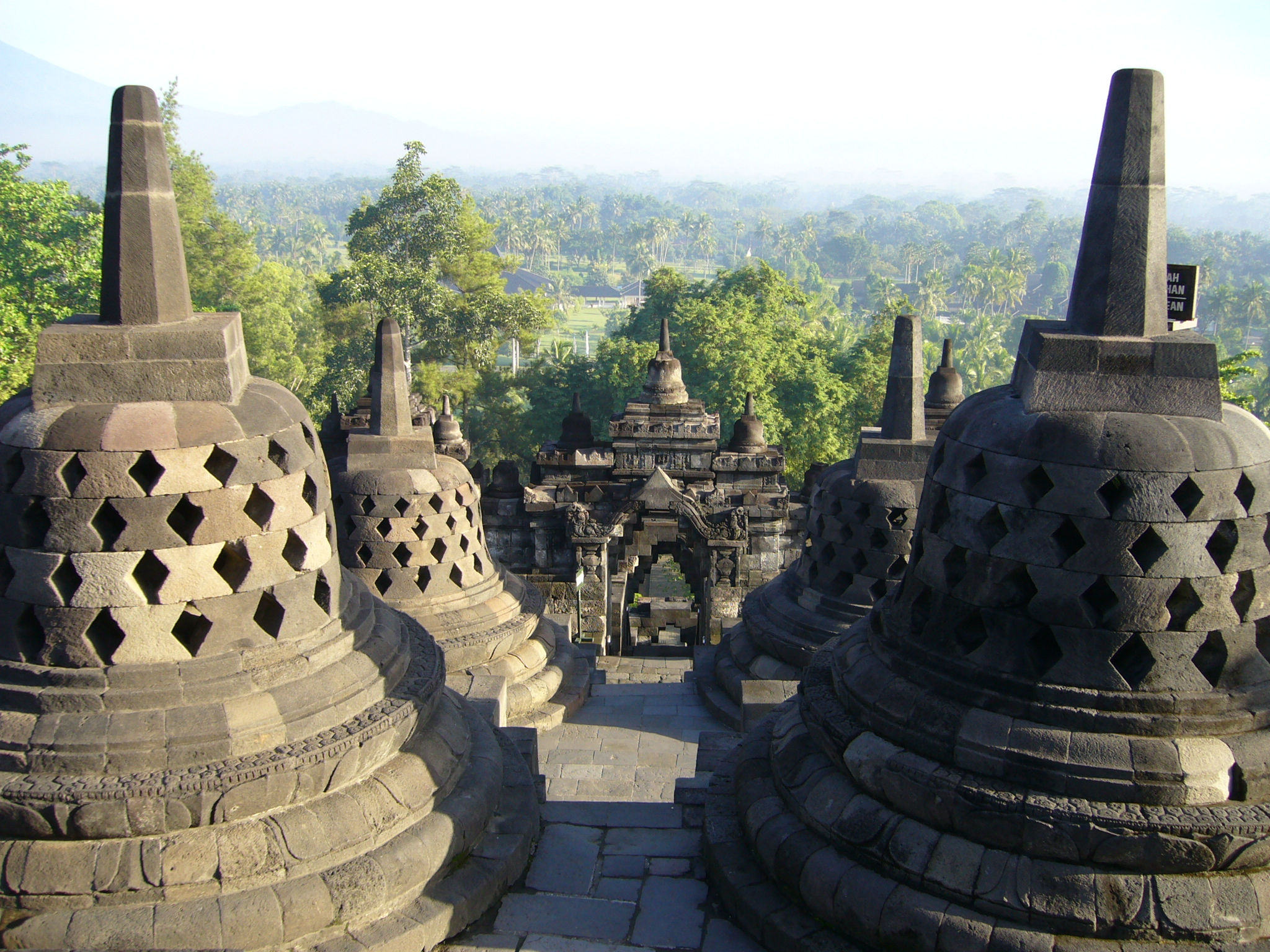 Borobudur Temple Compounds (Indonesia)